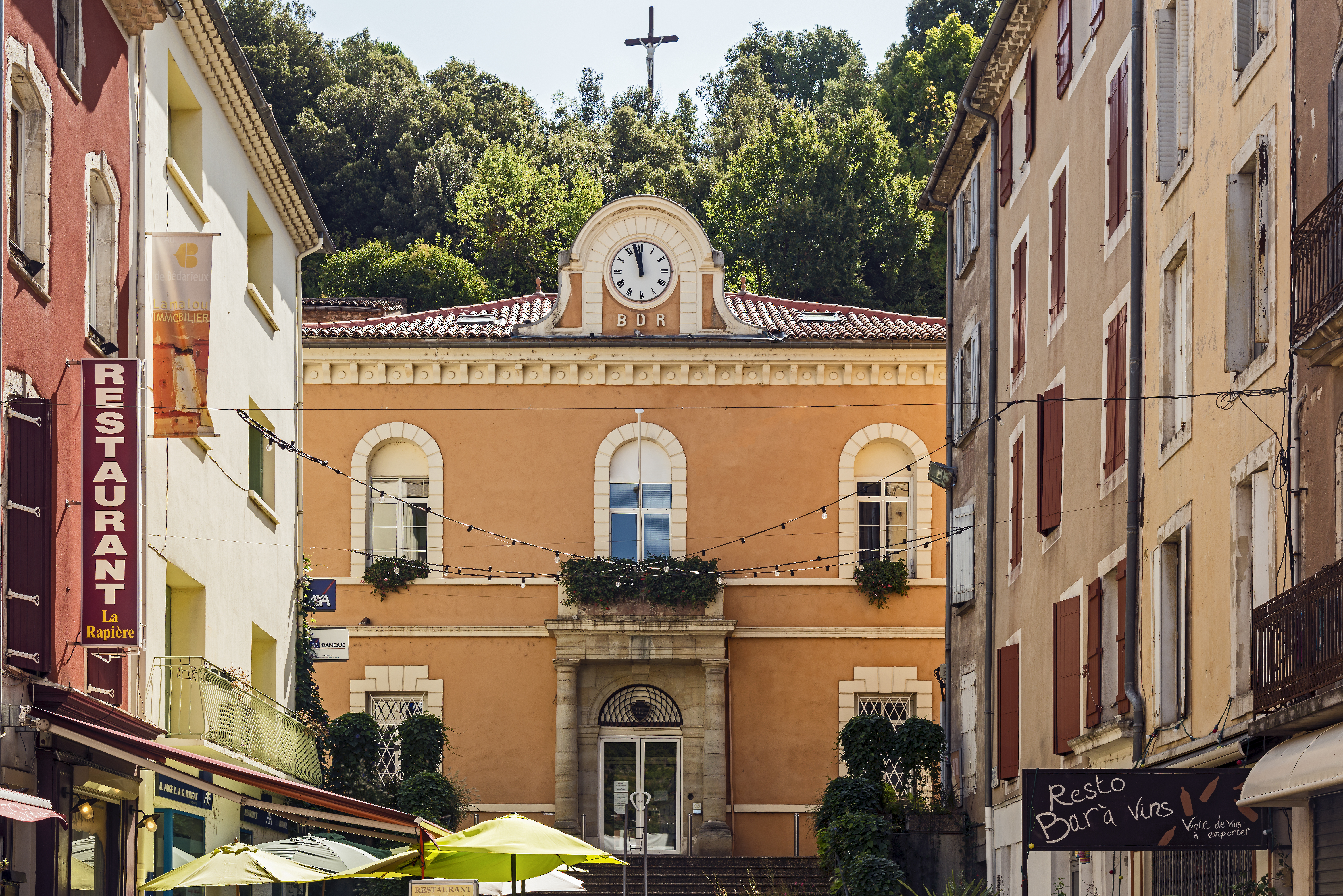 Bédarieux, Hérault, France. Town hall by architect Jean-Pierre Blanc, 1821.